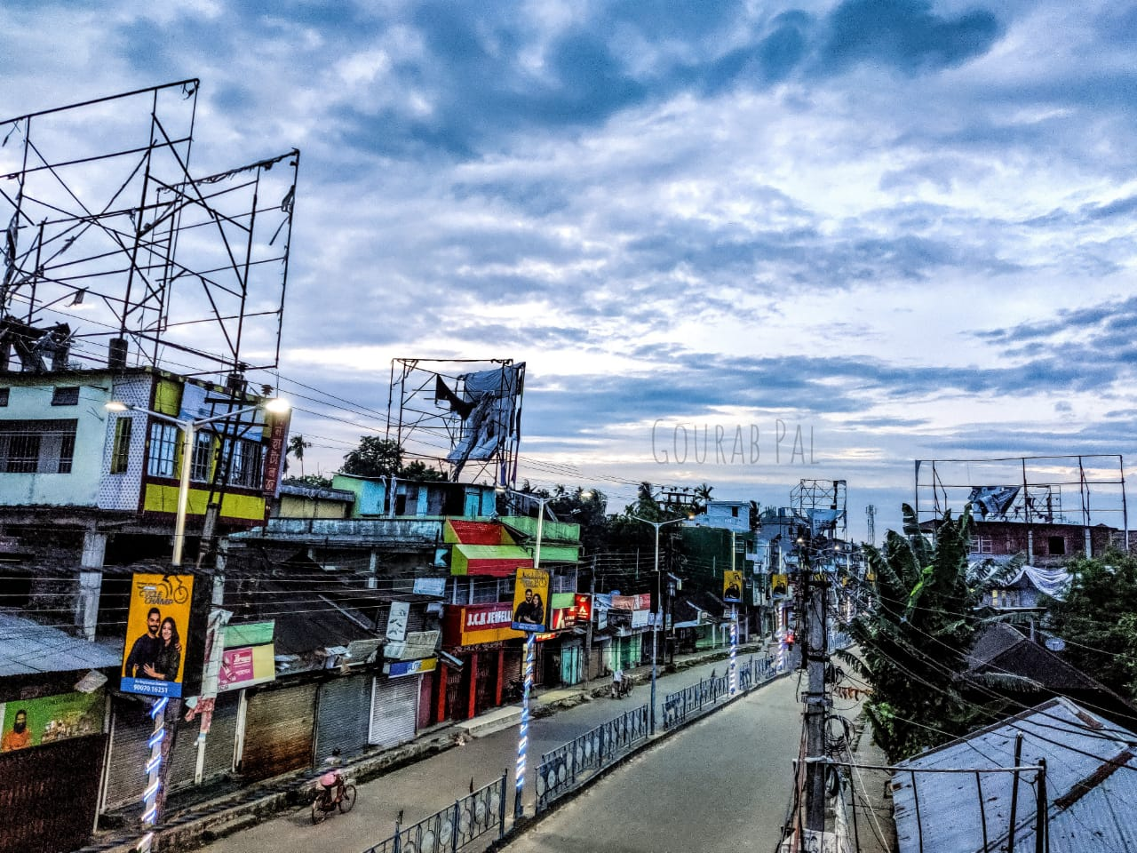 A skyline of Dinhata Town.